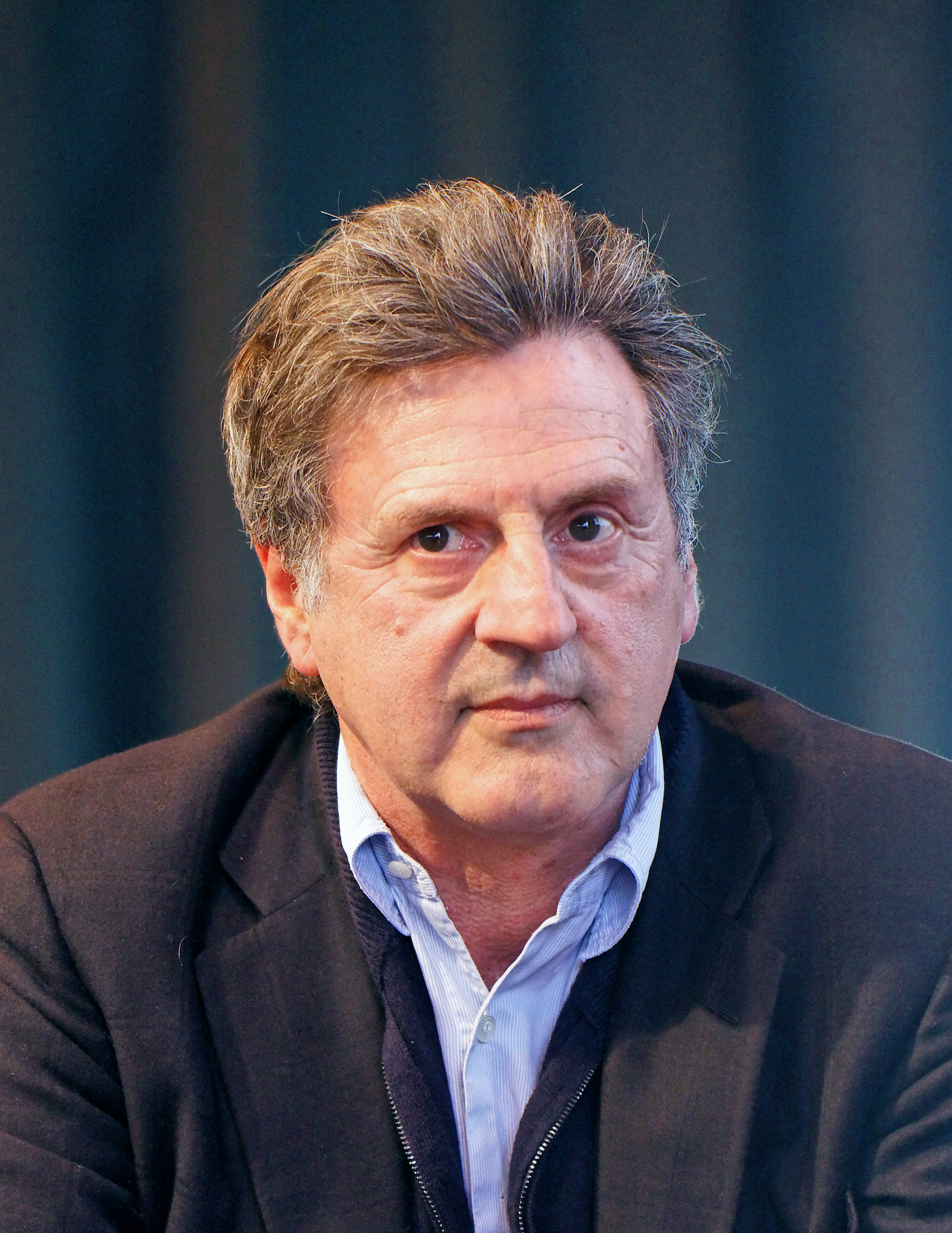 Daniel Auteuil at the Paris Book Fair, 20 March 2011